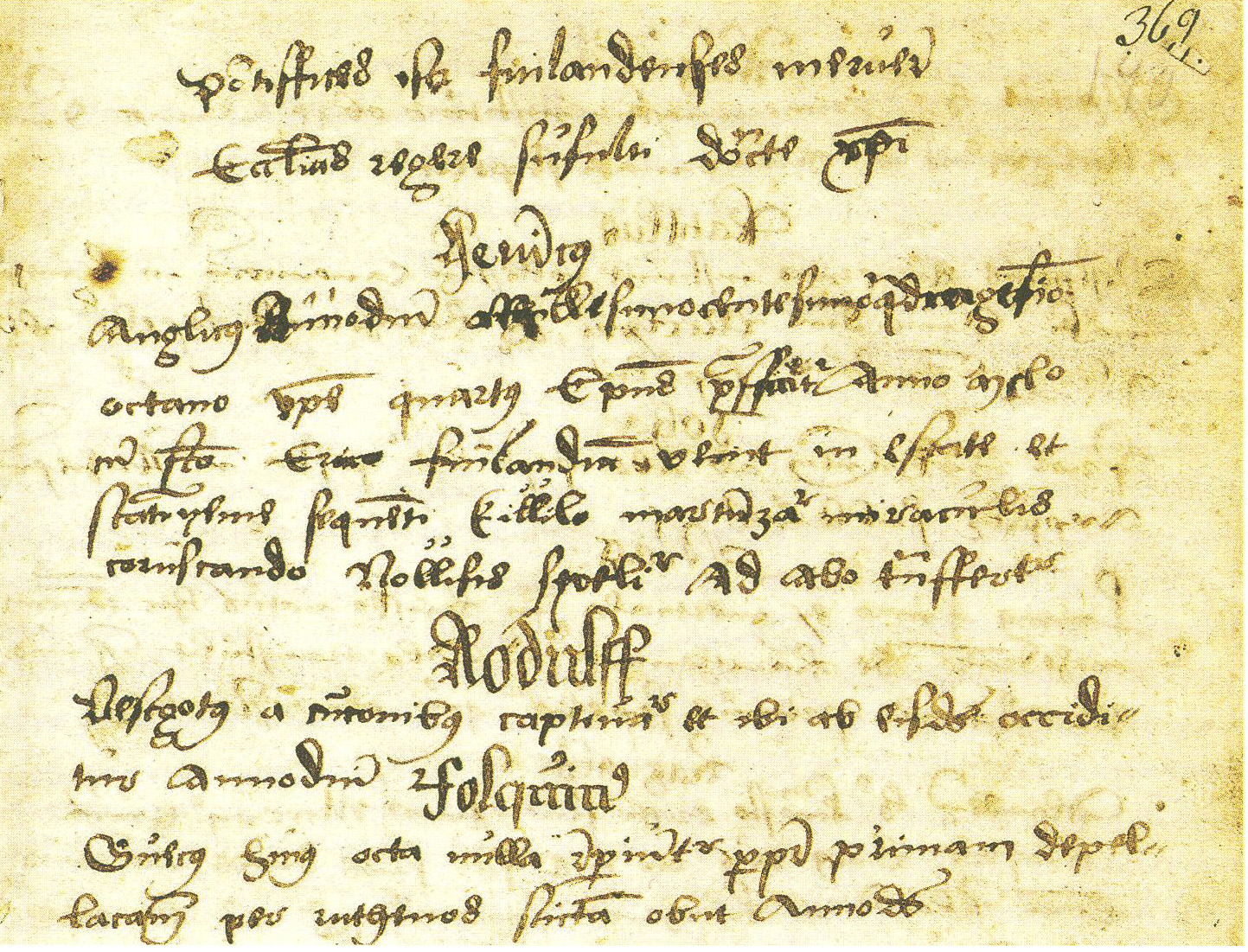 Chronicle of bishops of Finland by Paul Juusten.